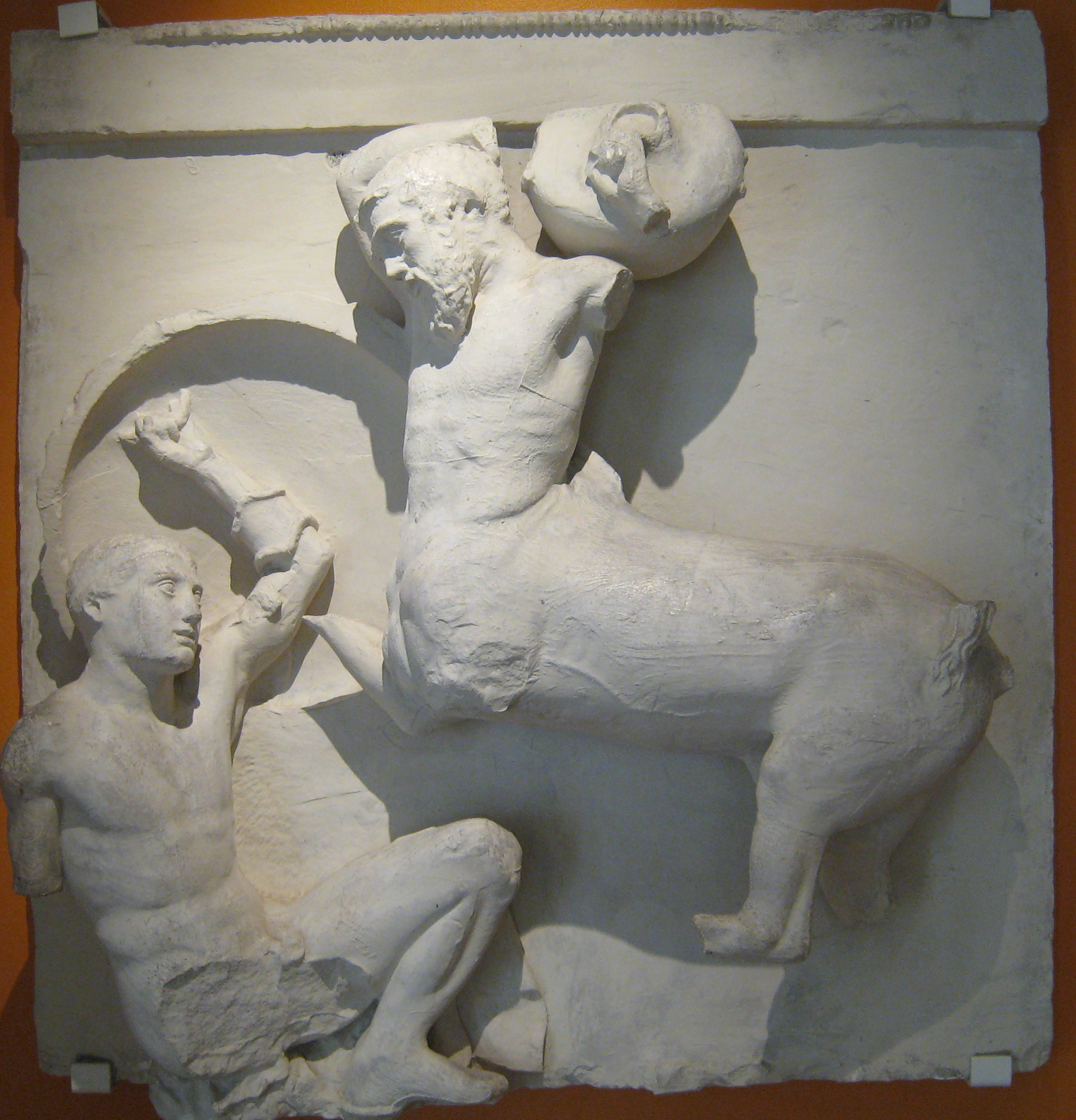 Scene from a metope (IV south) which was part of the outer frieze of the parthenon. The relief depicts a scene from the legendary wedding of Peirithoos. The heads were brought to Denmark. Cf. Image:South_metope_4_Parthenon_BM.jpg